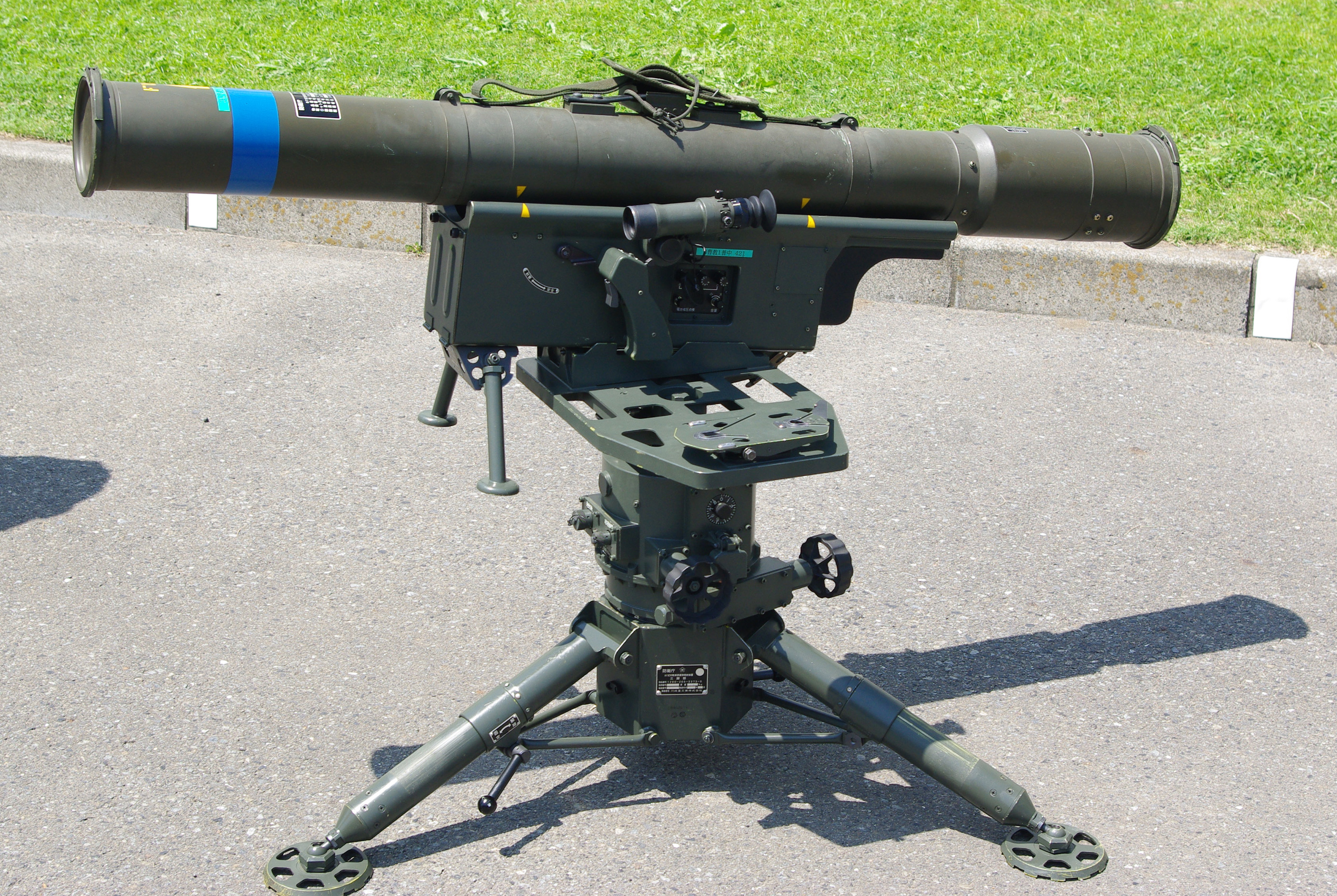 JGSDF Type87 ATM,3rd sergeant training unit/Eastern Army Combined Brigade.Taken by Los688,in Camp Takeyama,Japan,at 27-May-2012.PD-self ja:87式対戦車誘導弾、第3陸曹教育隊。2012年05月27日、武山駐屯地で撮影。